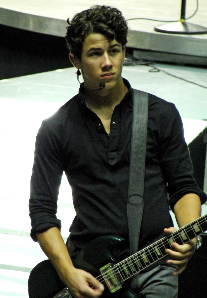 Jonas Brothers Concerts - Palace of Auburn Hills - Detroit, Michigan 2009.